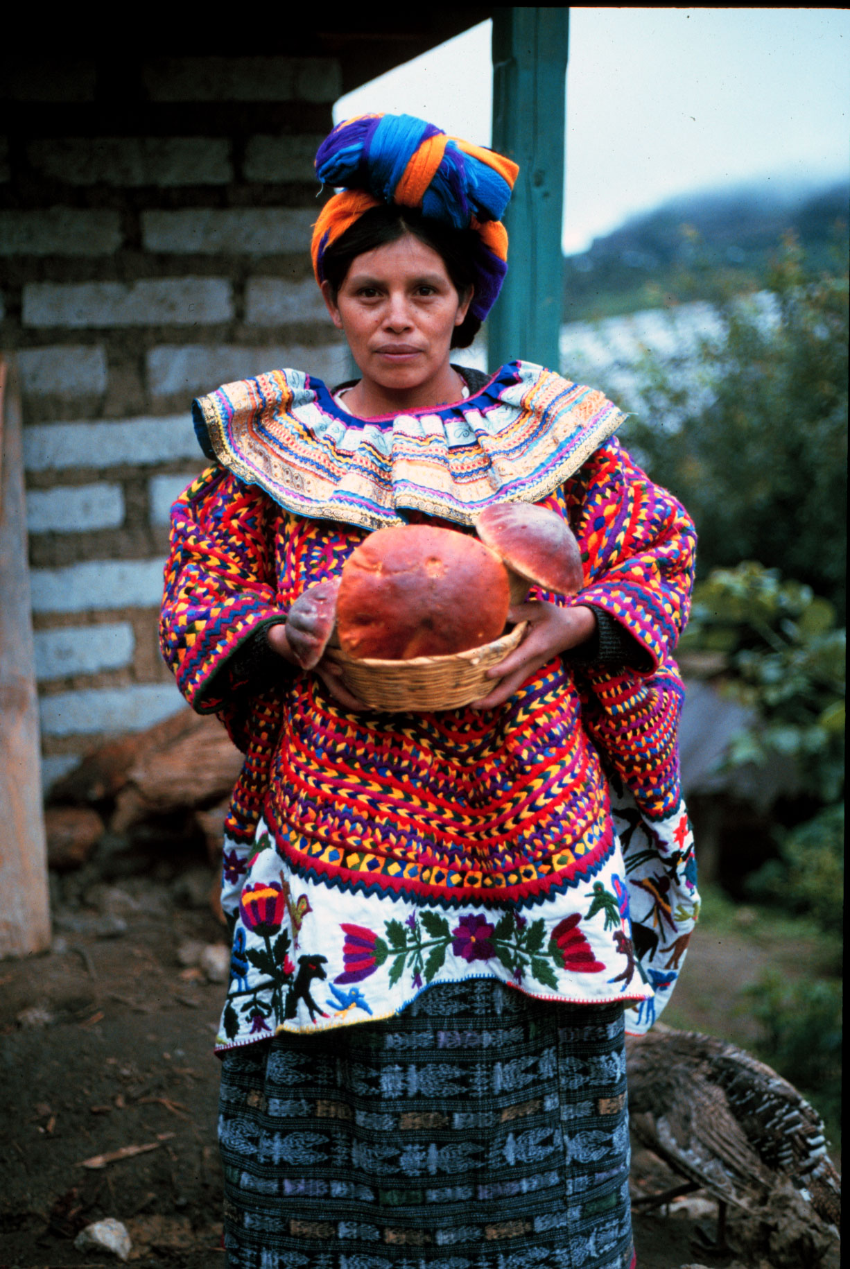 A woman displaying Boletus sporocarps, proximities of the Sierra de los Cuchumatanes, San Marcos, Guatemala